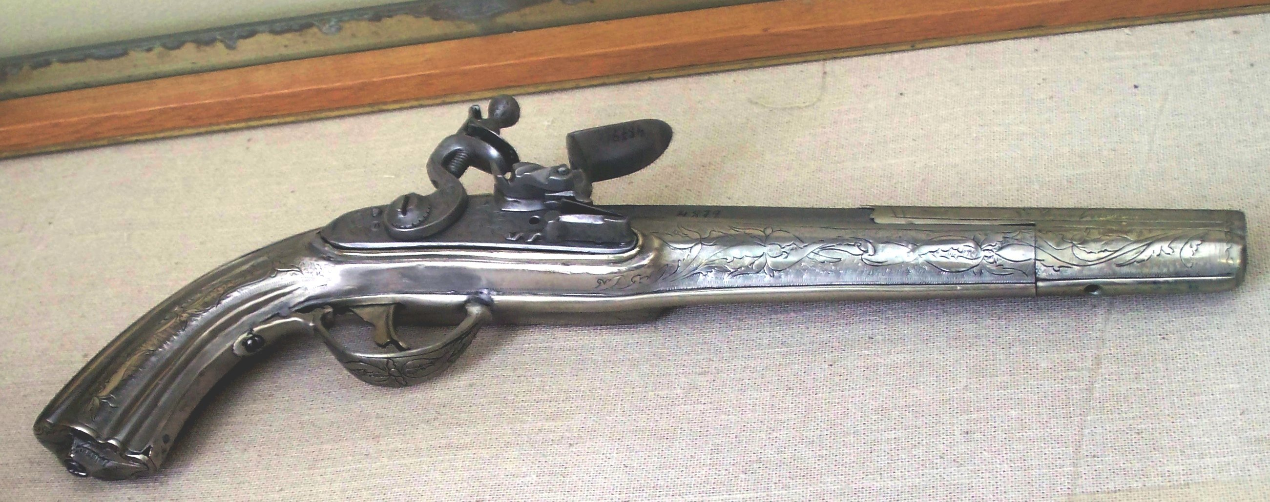 A 18th century pistol used during the Greek Revolution of 1821.National Historical Museum, Athens, Greece.